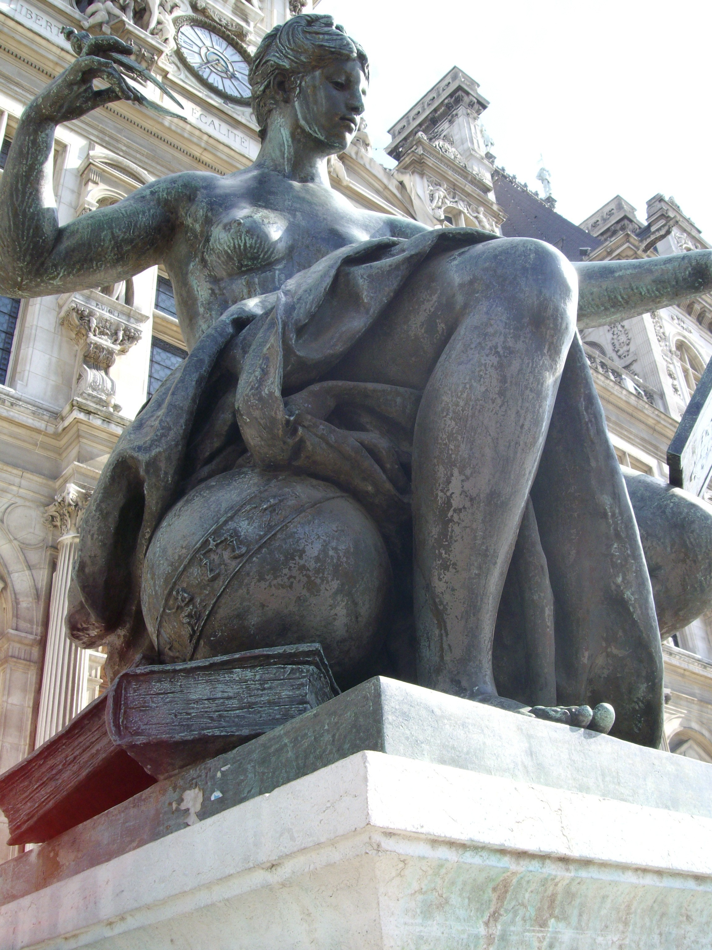 Statues of the City Hall in Paris, France